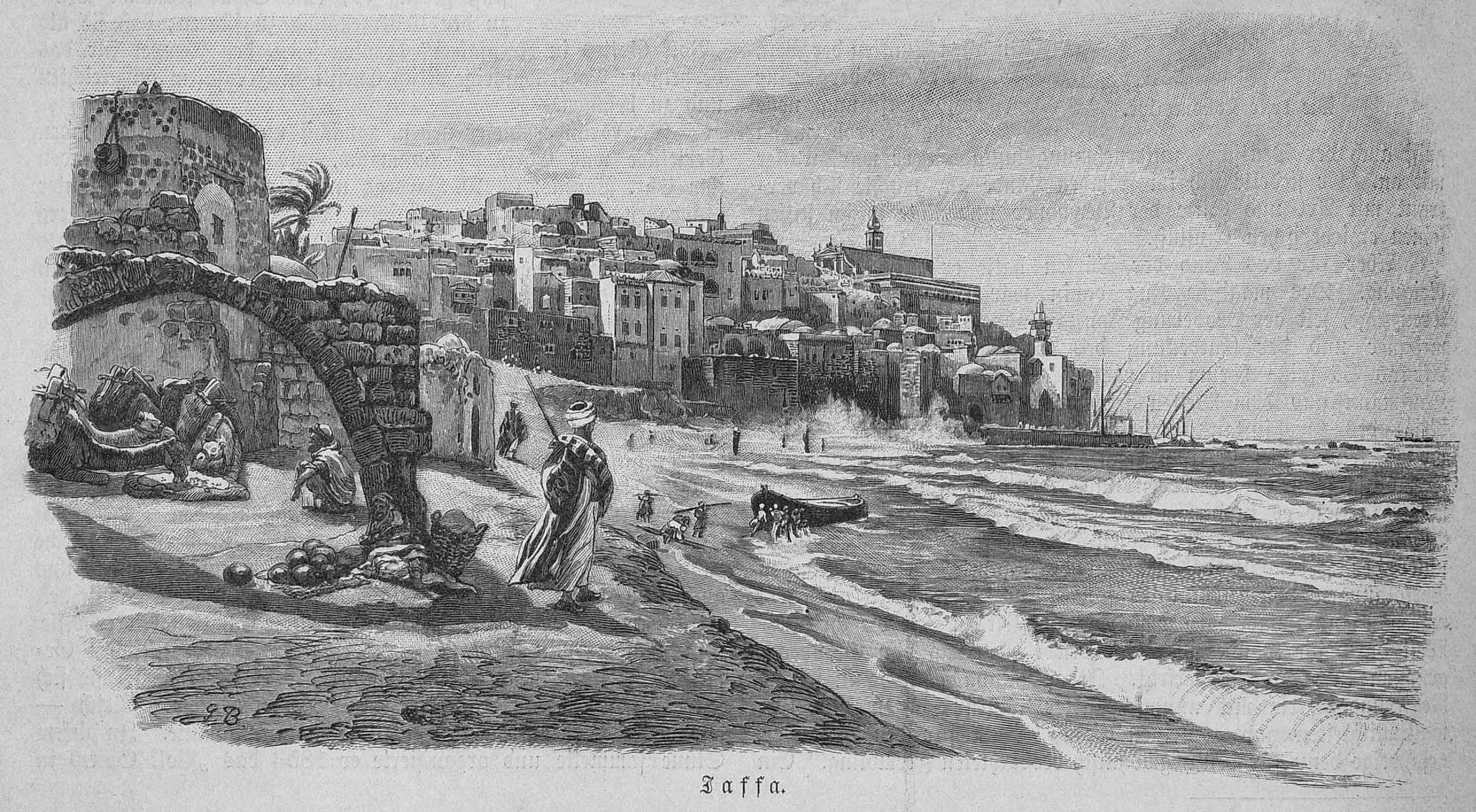 caption: "Jaffa."